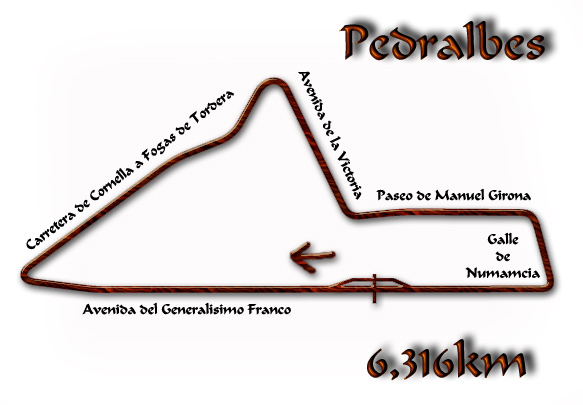 Diagram of the Pedralbes Circuit, hosted the Penya Rhin Grand Prix and the Spanish Grand Prix.